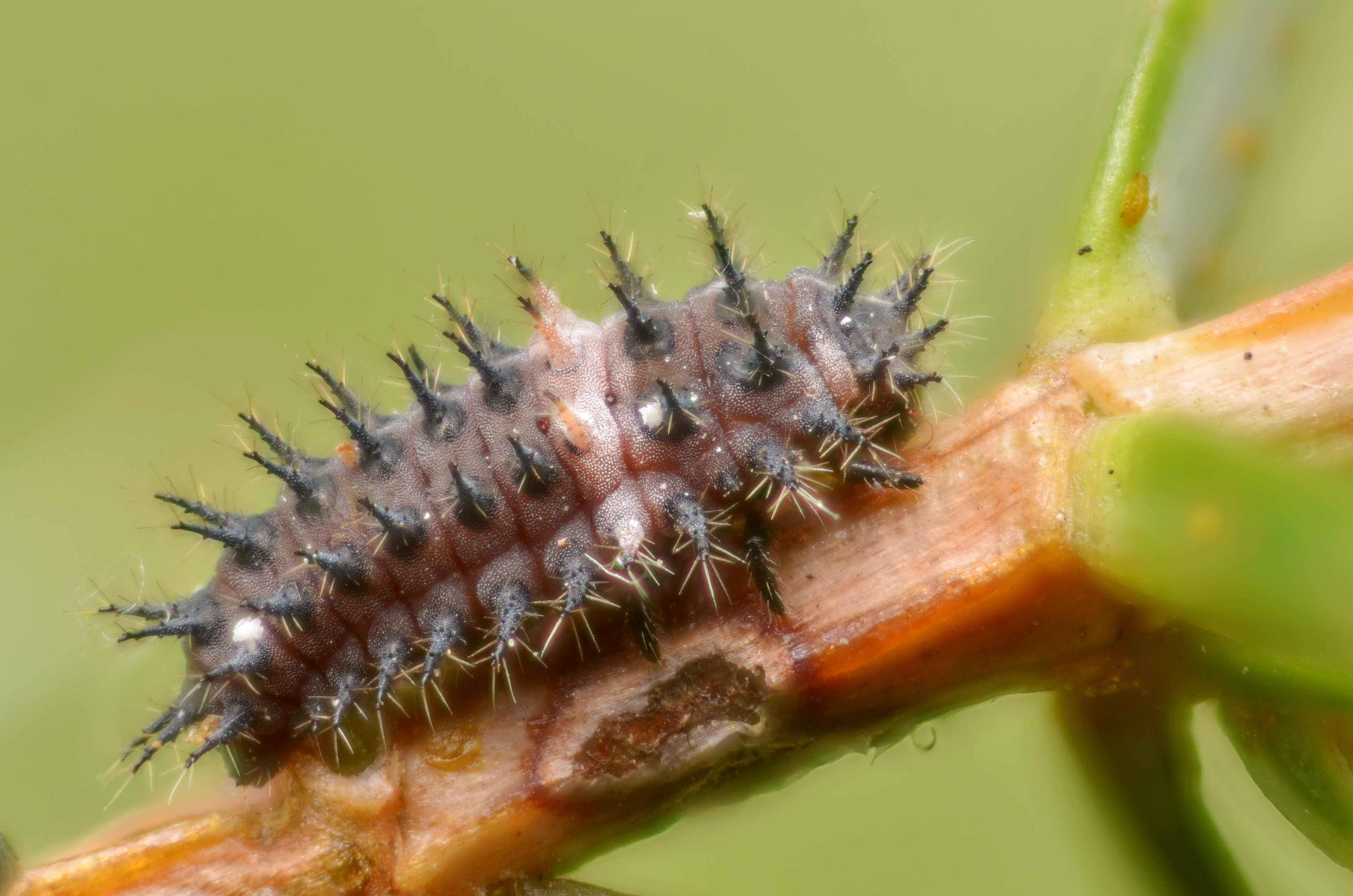 Larvae of the ladybird Chilocorus bipustulatus on Juniperus communis. Focus stack of 15 images on the field (natural light + flash) Micro-Nikkor AF-D 60mm f/2.8 on extension tubes, at f/5, 1/80s, 100 ISO